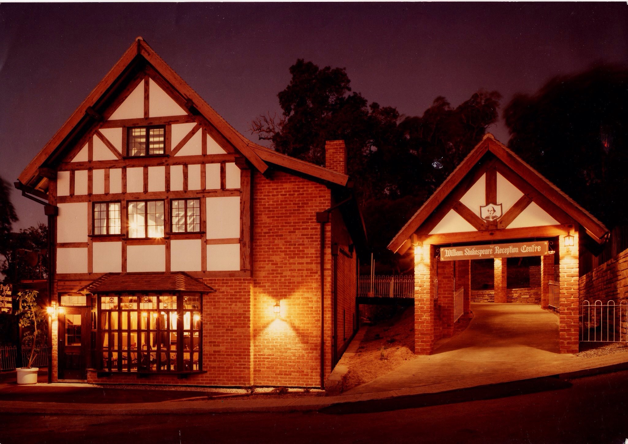 The Cobweb Restaurant is a part of the Elizabethan Village built by Stanley Leopold Fowler and is situated in Armadale, Western Australia